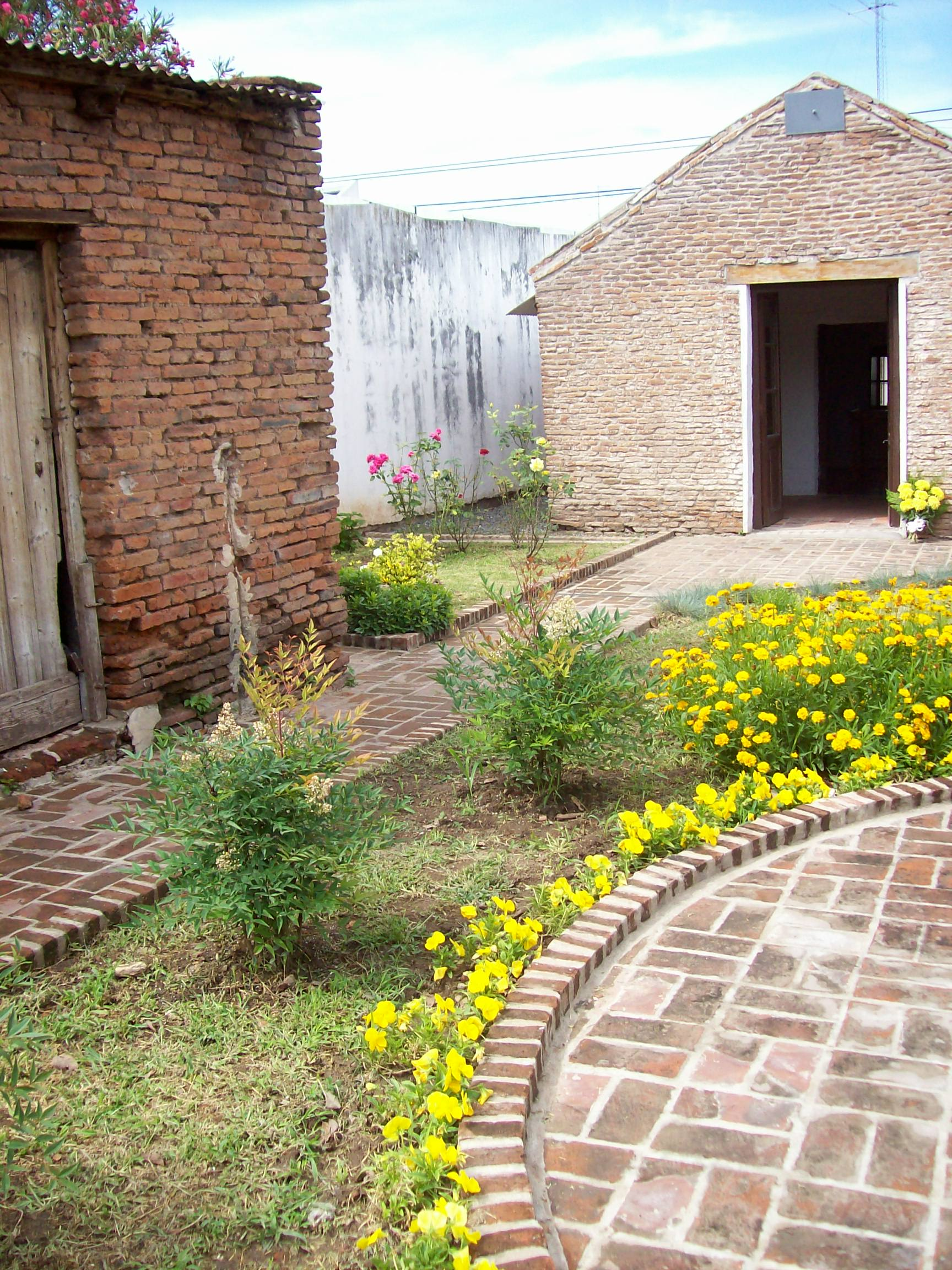 Backyard of the historical house of Coronel José Félix Bogado in San Nicolás, Buenos Aires, Argentina.